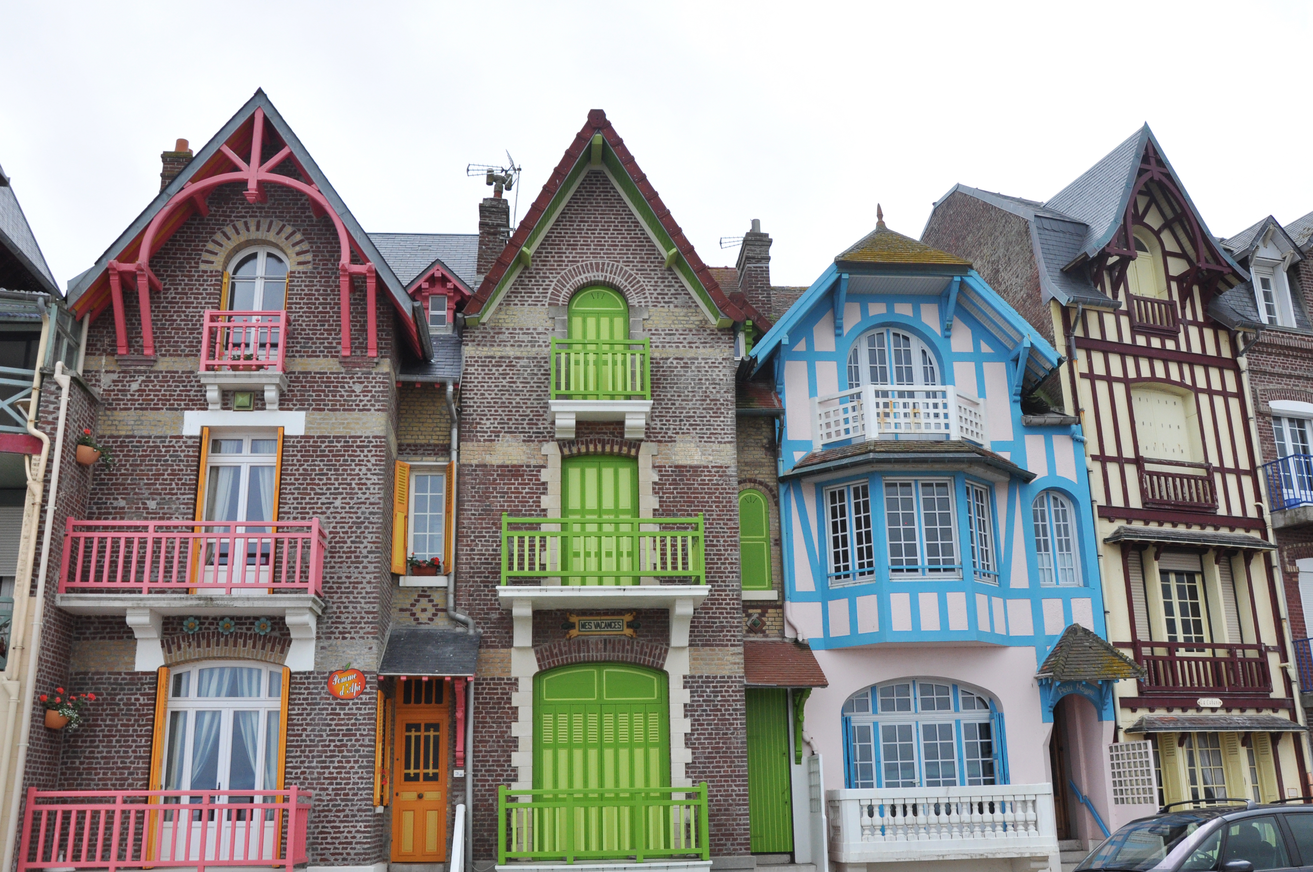 Facades in Mers-les-Bains (France), summer, 2015